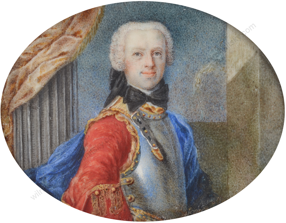 Anton Ulrich v. Braunschweig